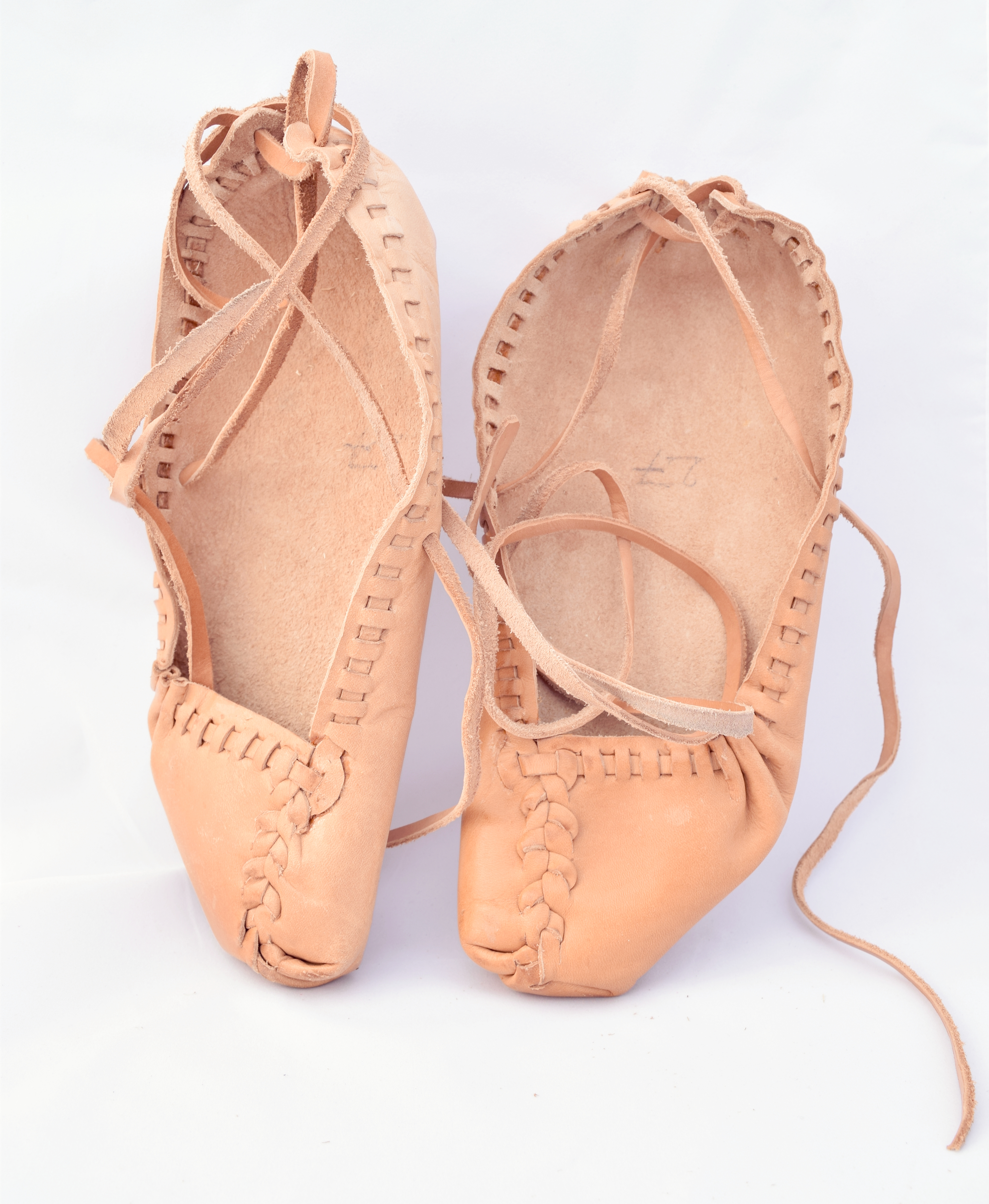 A pair of kierpce shoes, hand made in Silesian Beskids mountains in 2016 by local manufacturer. From the collection of the State Ethnographic Museum in Warsaw